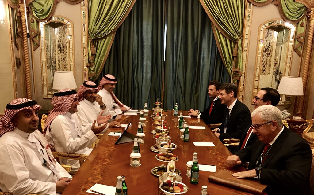 Good discussion with Saudi Arabian Director of PIF and Chairman of Saudi Aramco H.E. Yasir Al-Rumayyan about energy opportunities and investments in #USA